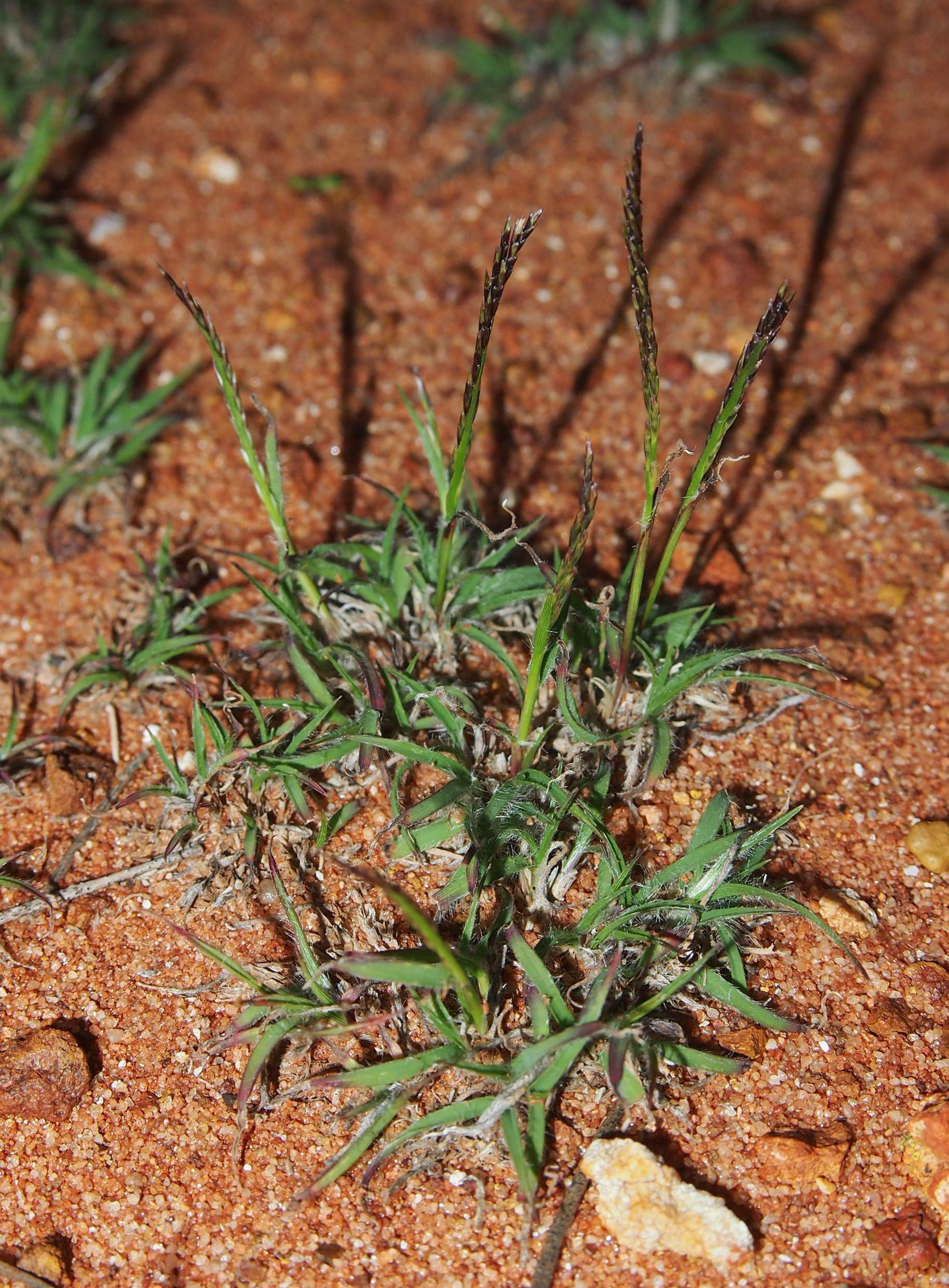 Tripogon loliiformis habit